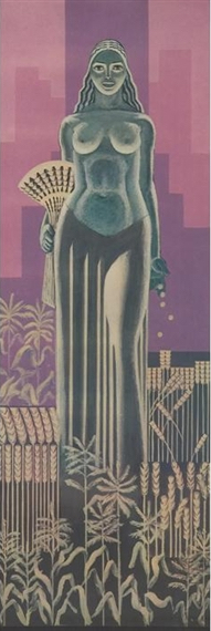 Commissioned in 1930 but removed from the agricultural trading room in 1973 and stored until 1982, John W. Norton's three-story mural of Ceres shown bare-breasted in a field of grain underwent extensive restoration in Spring Grove, Illinois by Louis Pomerantz before being displayed in the atrium of the 1980s addition of the Chicago Board of Trade Building, in Chicago, Illinois.